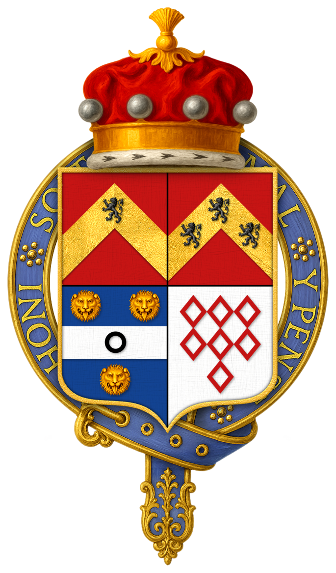 Coat of arms of Sir George Brooke, 9th Baron Cobham, KG Quarterings based on those displayed on Lord Cobham's tomb within the chancel of St. Mary Magdelen Church, Cobham, Kent.